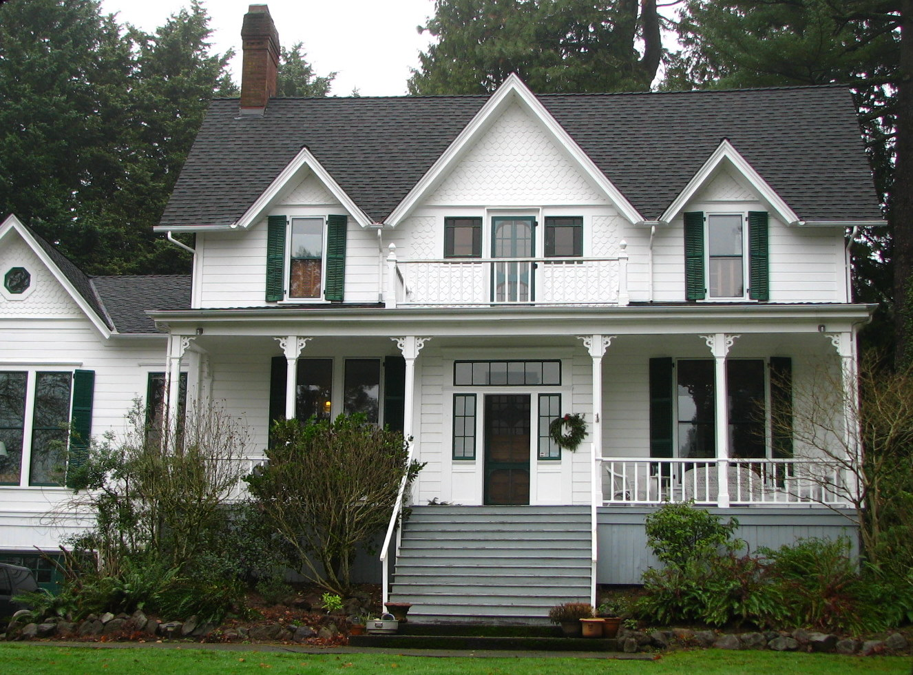 The historic Henry E. Dosch House (built 1892), located at 4825 Southwest Dosch Park Lane in Portland, Oregon, United States, is listed on the US National Register of Historic Places.